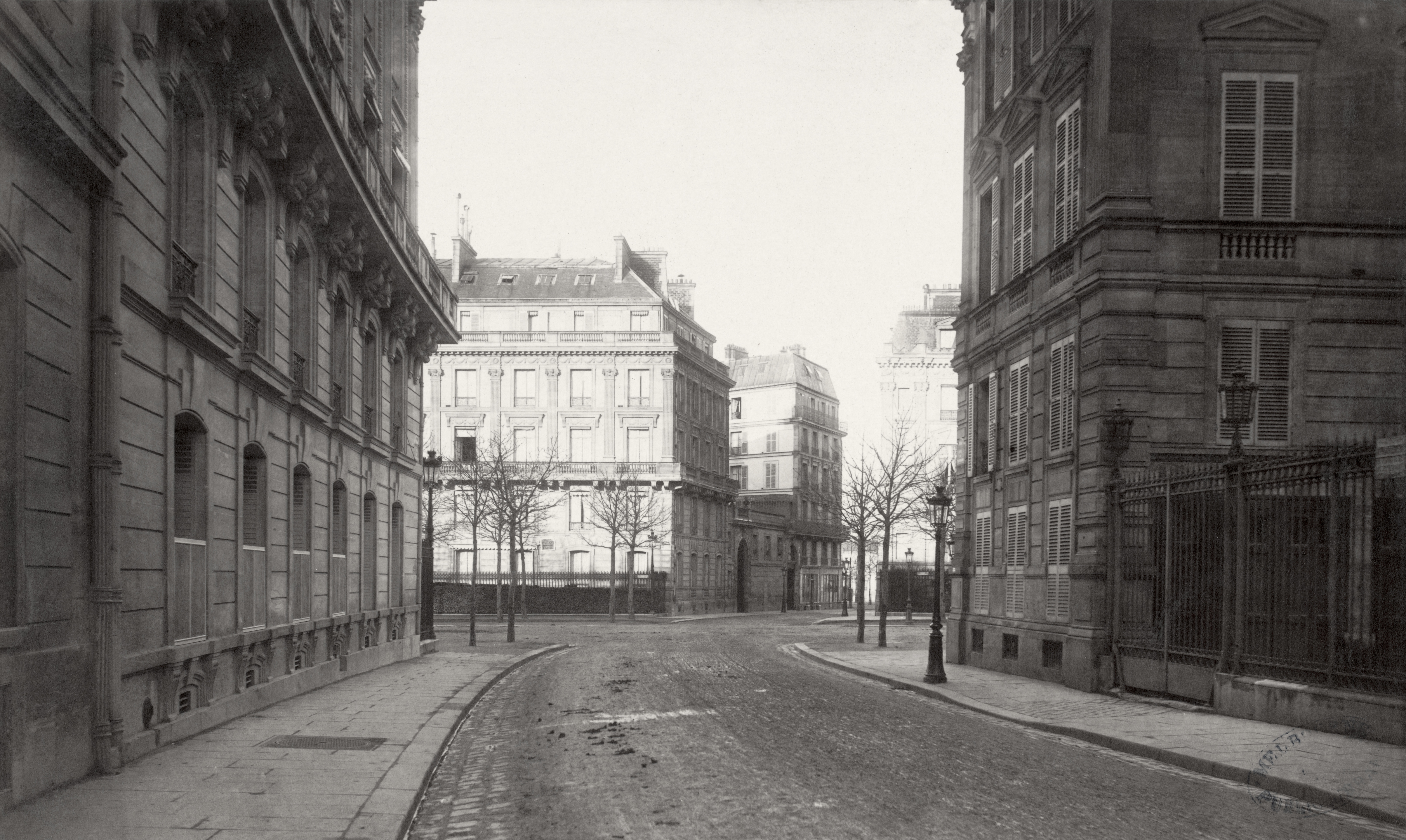 Looking along curving street with railing fence adjoining building on right.